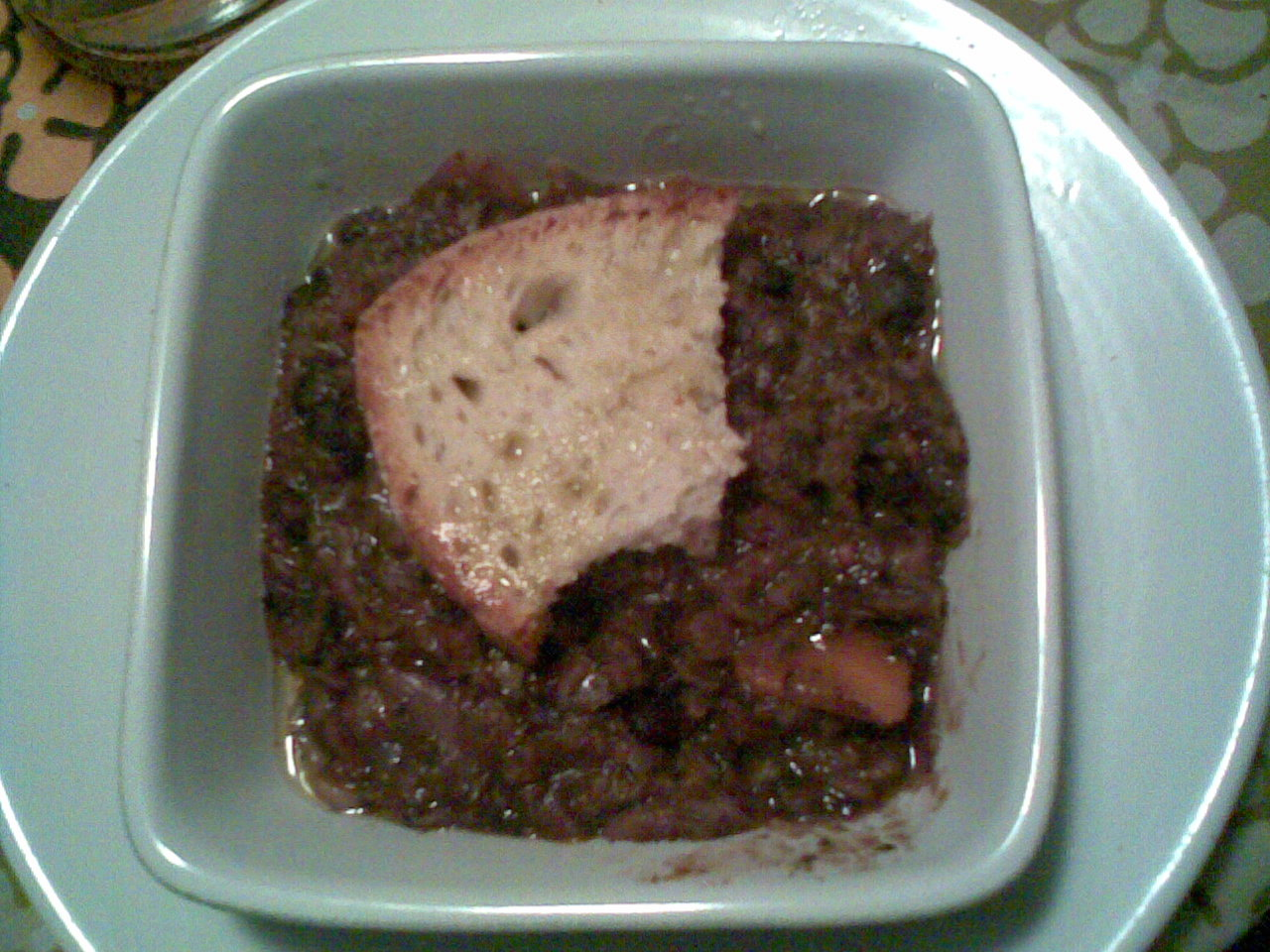 italian food Soup